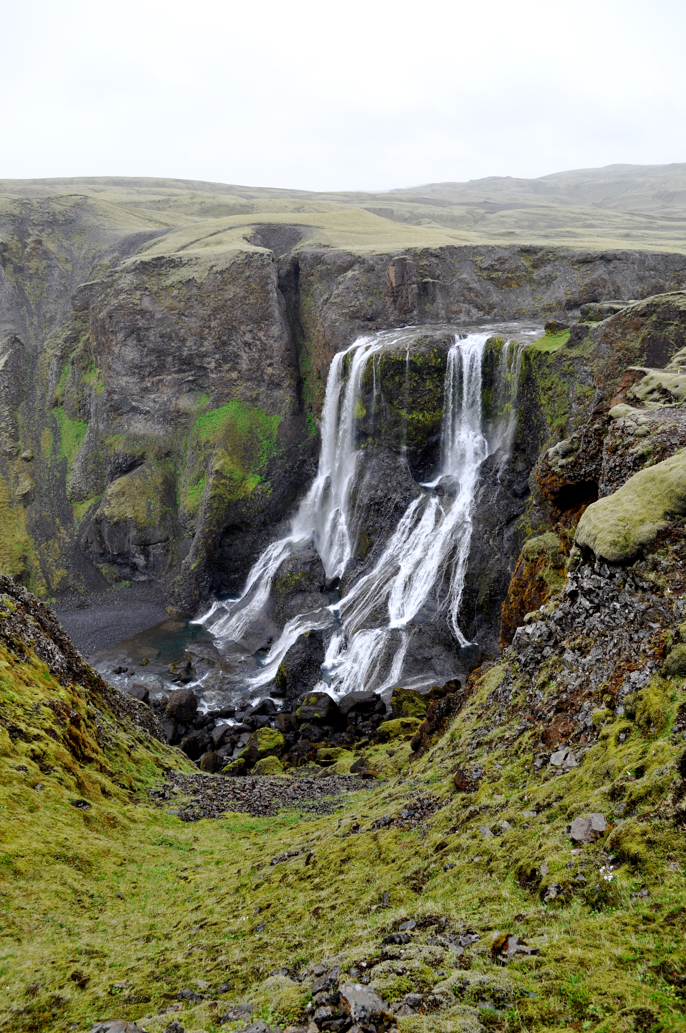 Fagrifoss, Iceland in June 2010.